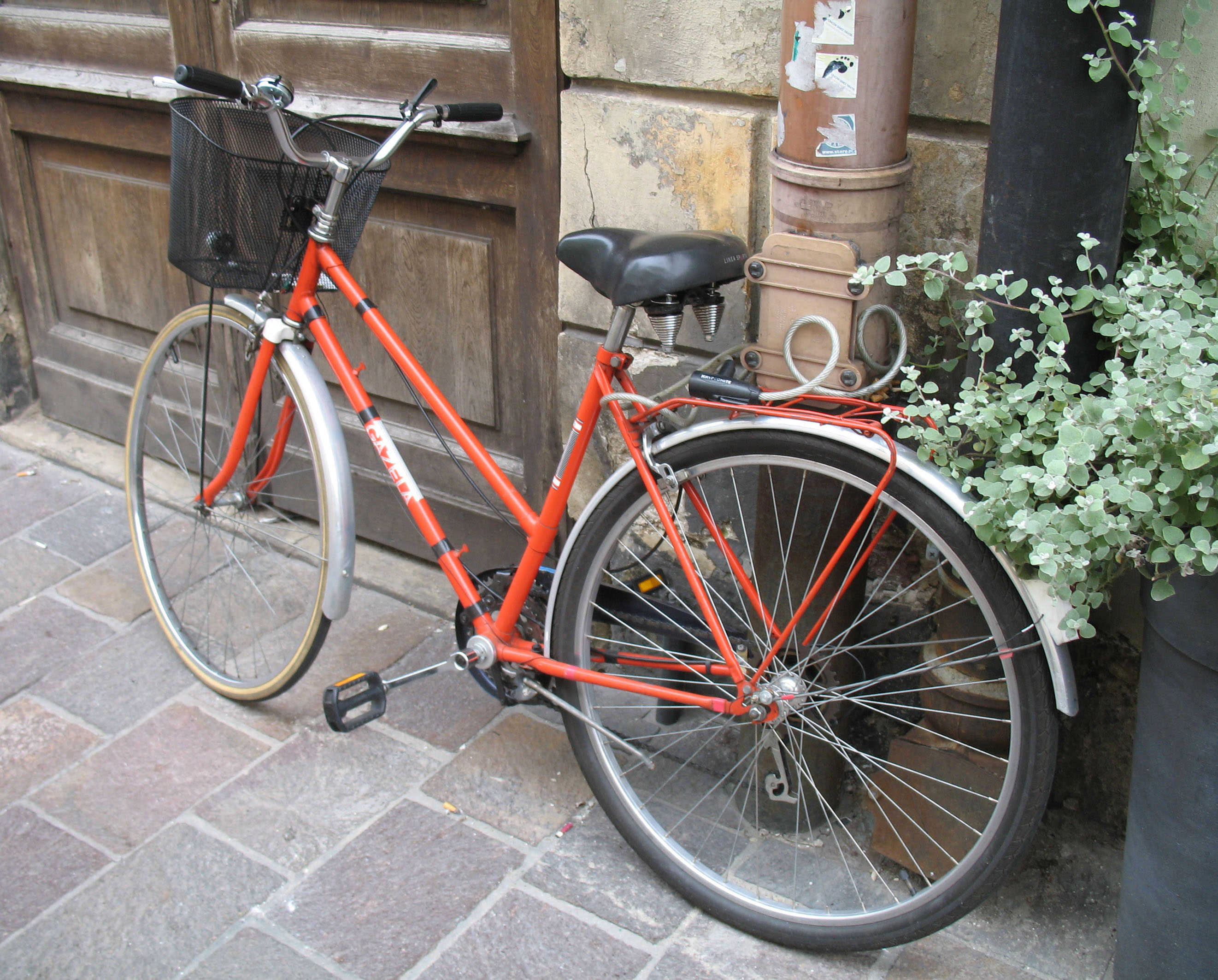 Romet Gazela bicycle in Kraków, Poland.